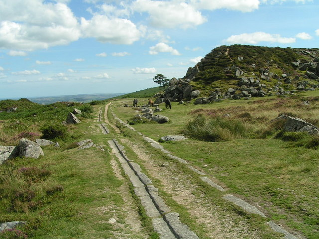 Haytor Granite Tramway. Looking Southwest on the Haytor Granite Tramway, a unique tramway built entirely from granite (rather than iron on wooden sleepers). It was built around 1820 to convey the quarry's product over eight miles to the Stover canal. Gravity and sturdy brakes carried the stone laden carts down off the moor, with teams of horses pulling the 'train' back up to the quarry.